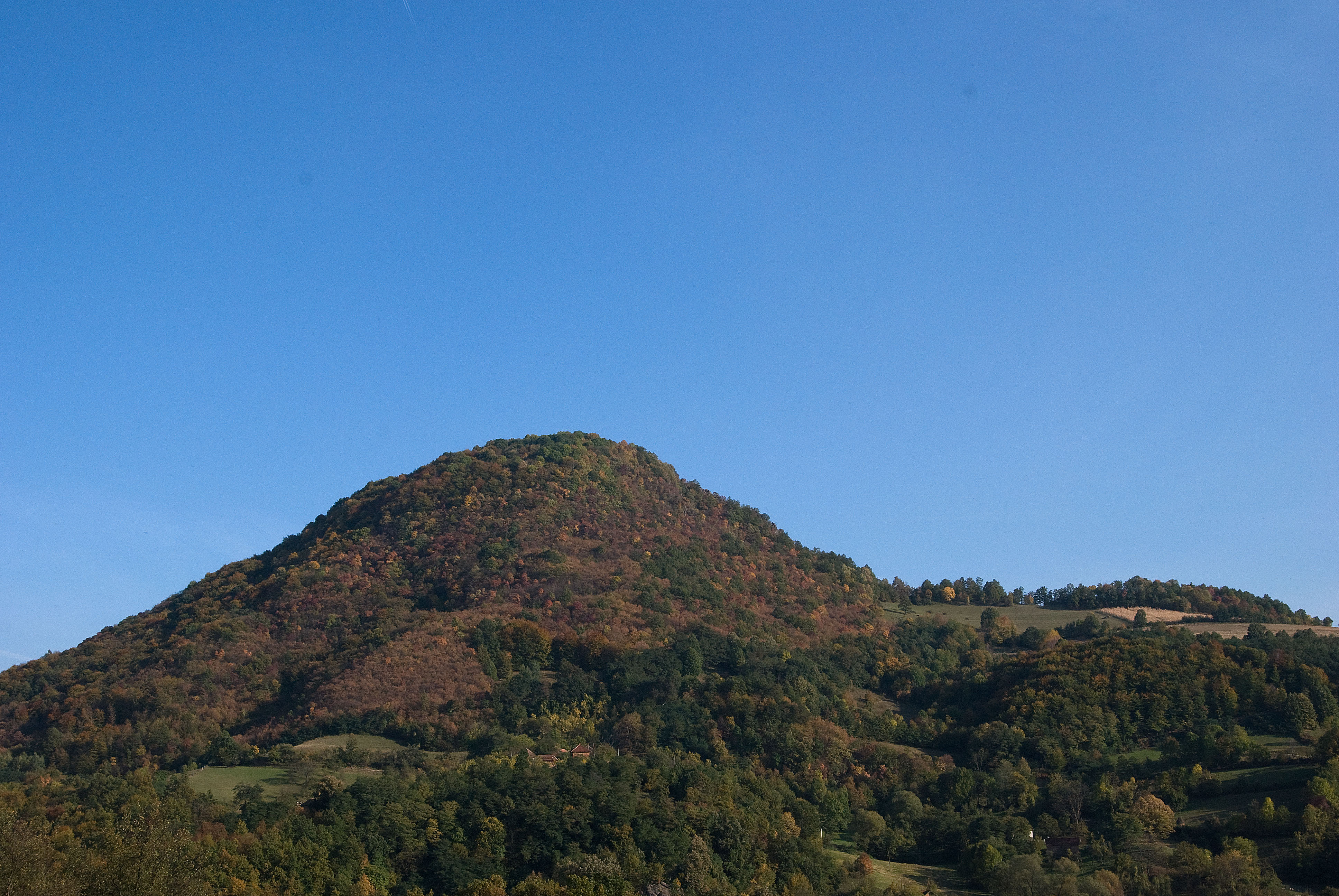 Treska hill (on which are remains of a fortress) near Gornji Milanovac, Serbia